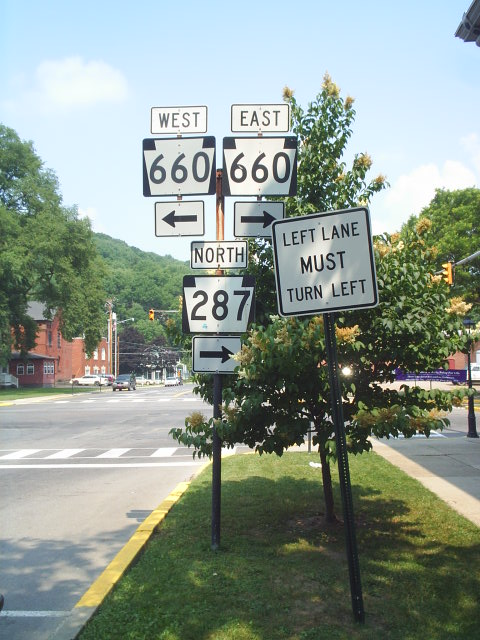 Signage in Wellsboro, Pennsylvania for PA Route 287 and PA Route 660.